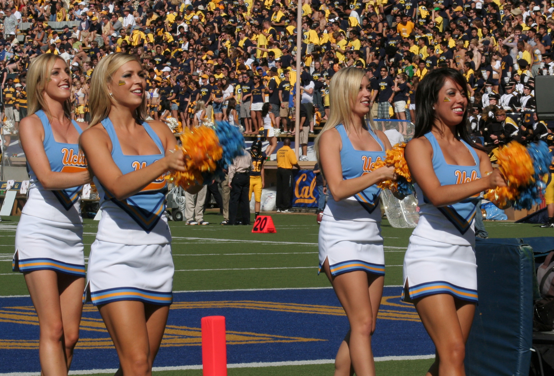 UCLA Spirit Squad